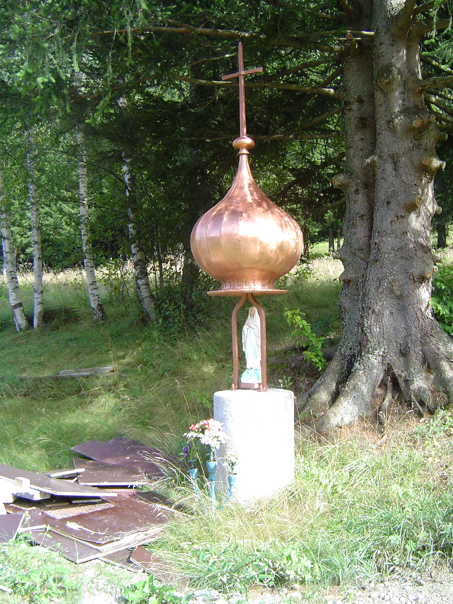 Shrine with copper dome in Chamonix - Haute-Savoie, France.